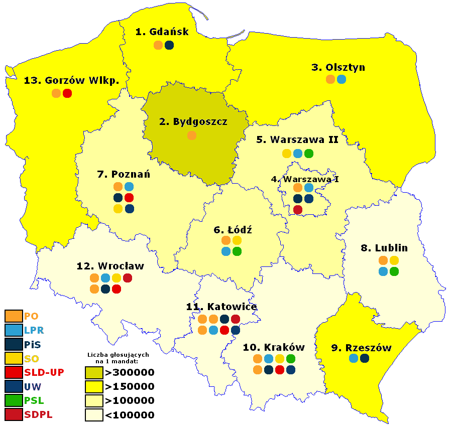 European Parliament election, 2004 (Poland) - Number of seats taken by constituencies Number of active voters per 1 seat